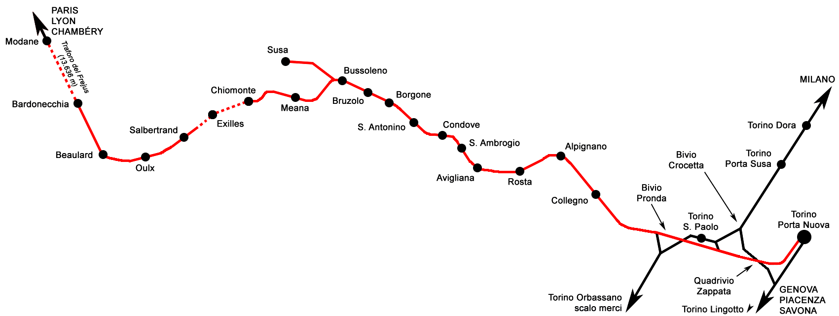 Map of the Frejus railway (Torino-Modane), linking Italy and France between the Alps)